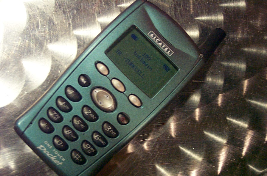 Alcatel one-touch pocket